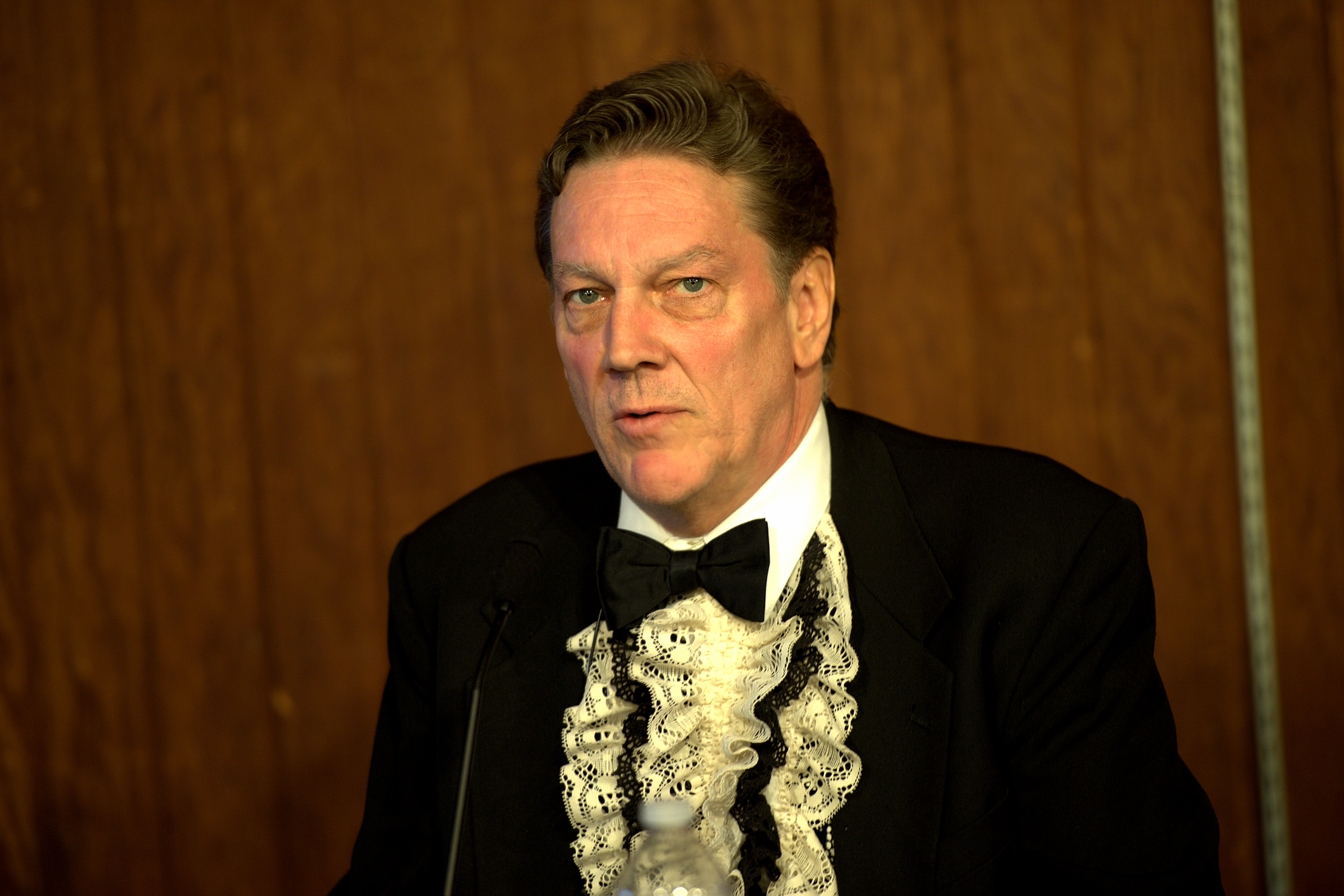 Portrait of cartoonist Tony Millionaire by Guillaume Paumier at the Alternative Press Expo 2010, organized at the Concourse Exhibition Center in San Francisco, California, by Comic-Con International on Oct. 16-17, 2010.